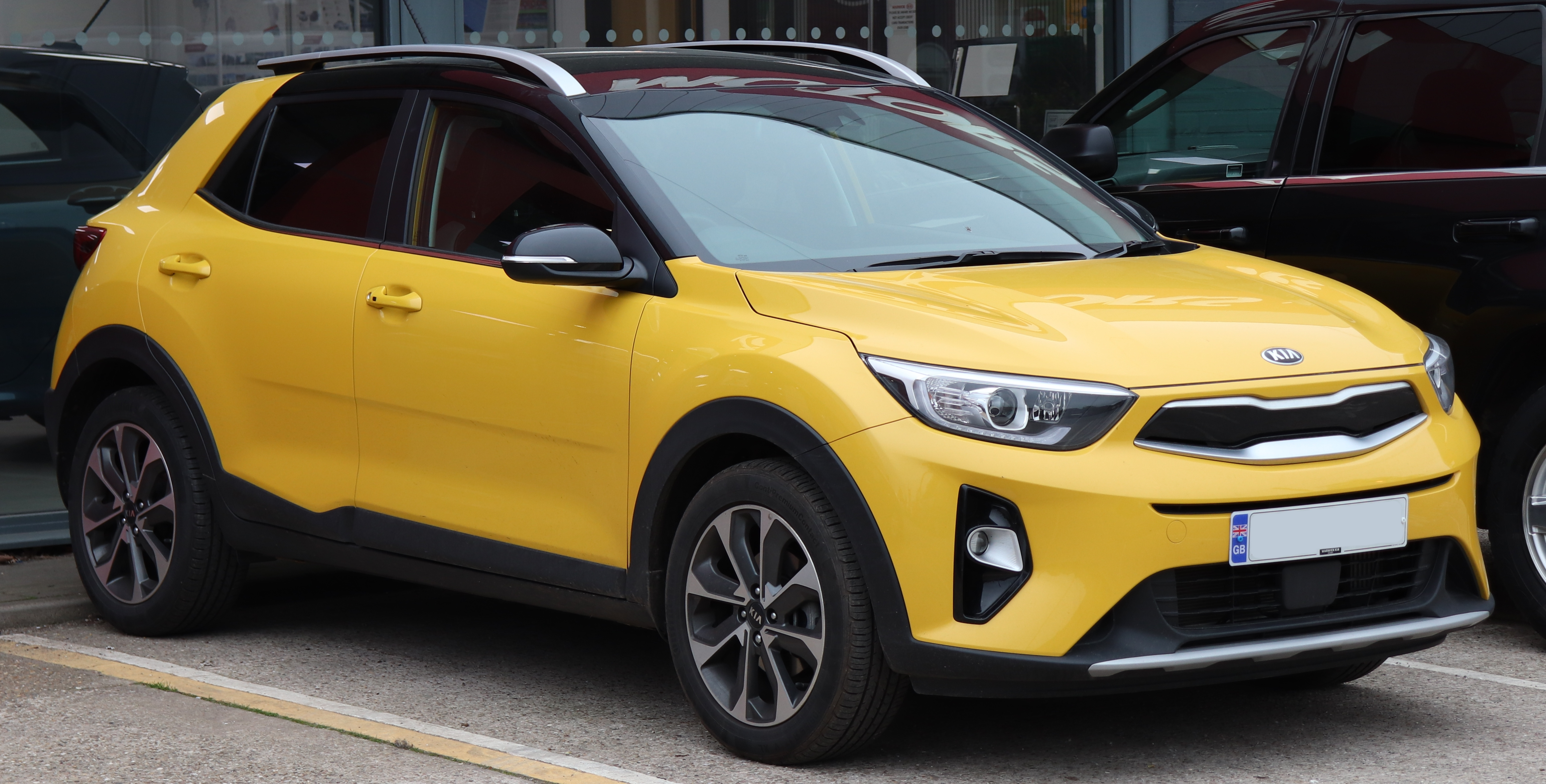 2017 Kia Stonic First Edition 1.0 Taken in Warwick